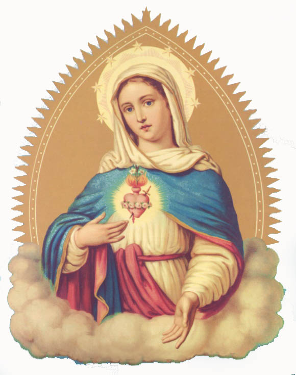 Immaculate heart of the Virgin Mary (devotional type image)